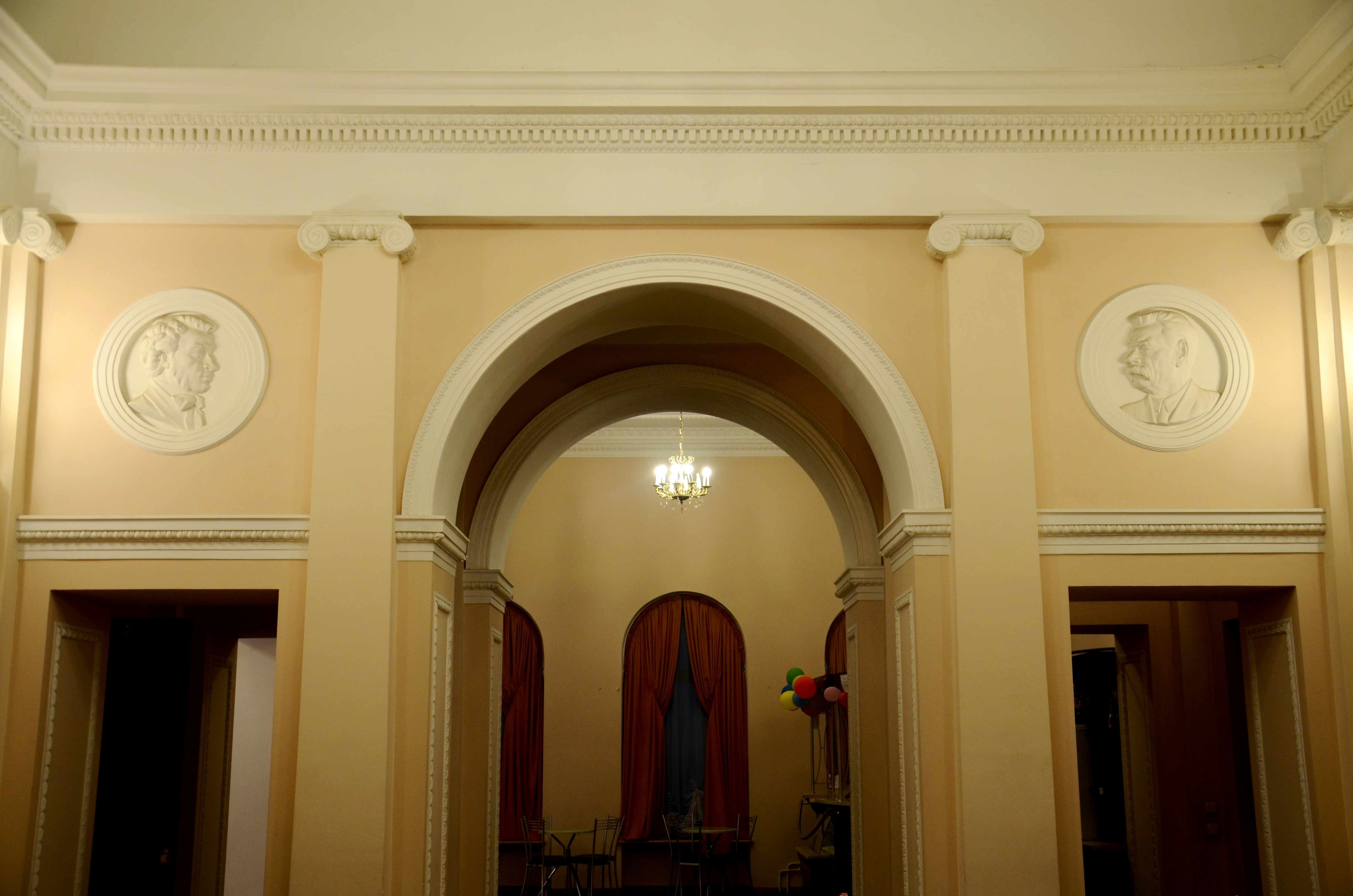 Interior of Maxim Gorky National Academic Drama Theatre